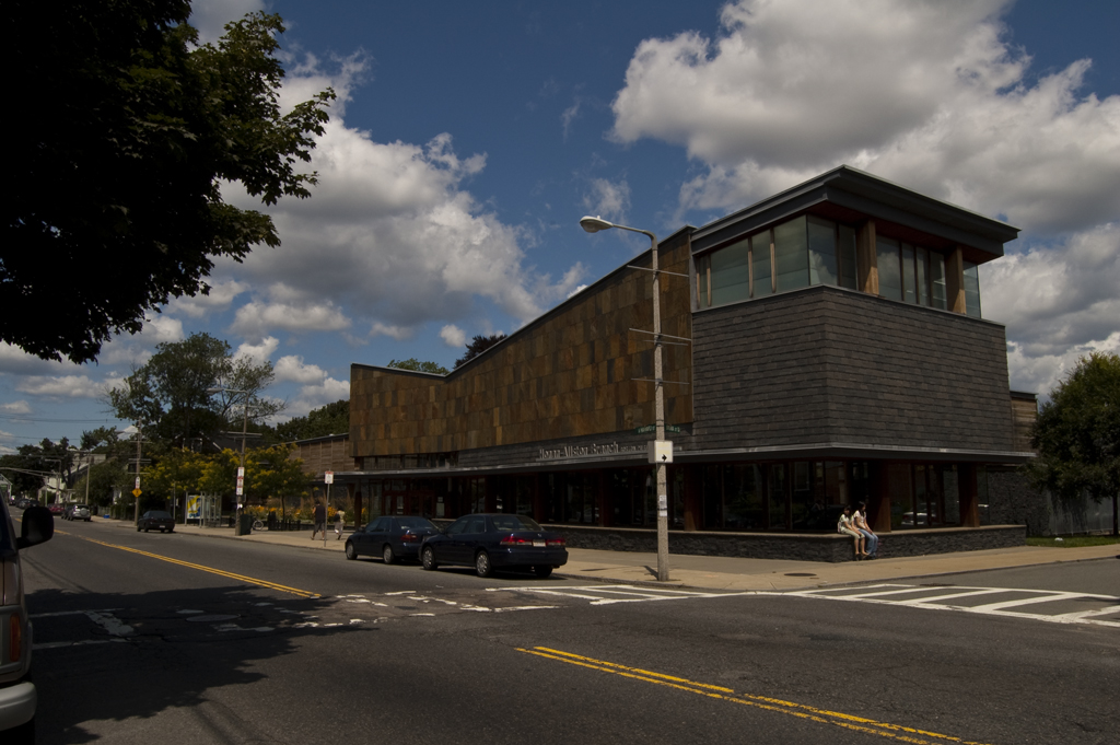 Boston Public Library, Honan Branch